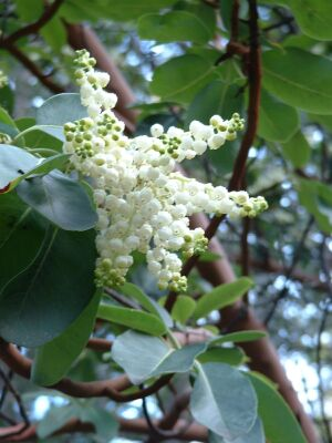 Pacific Madrone (Arbutus menziesii) blossom. On Mount Tamalpais, northern California. Photographed 20th March 2004, by Stephen Lea. This reduced image placed in the public domain 20th March 2004.